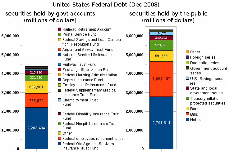 The holders of the United States national debt as of December 2008.